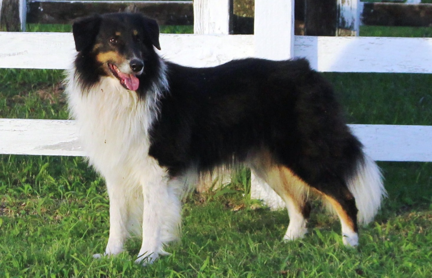 Ovelheiro Gaúcho